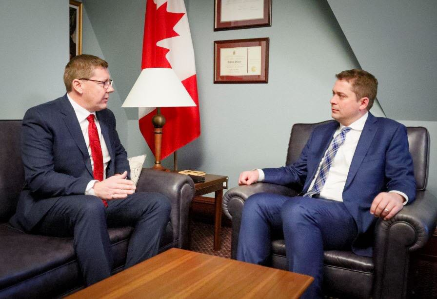 Today I sat down with Premier Scott Moe, to discuss how Trudeau's policies have hurt the people of Saskatchewan. I assured him that Conservatives have a plan to keep Canada united by supporting our energy sector and ensuring fairness for all provinces.